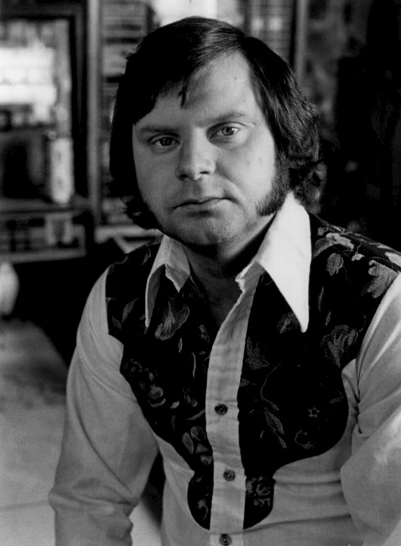 Publicity photo of singer Moe Bandy.